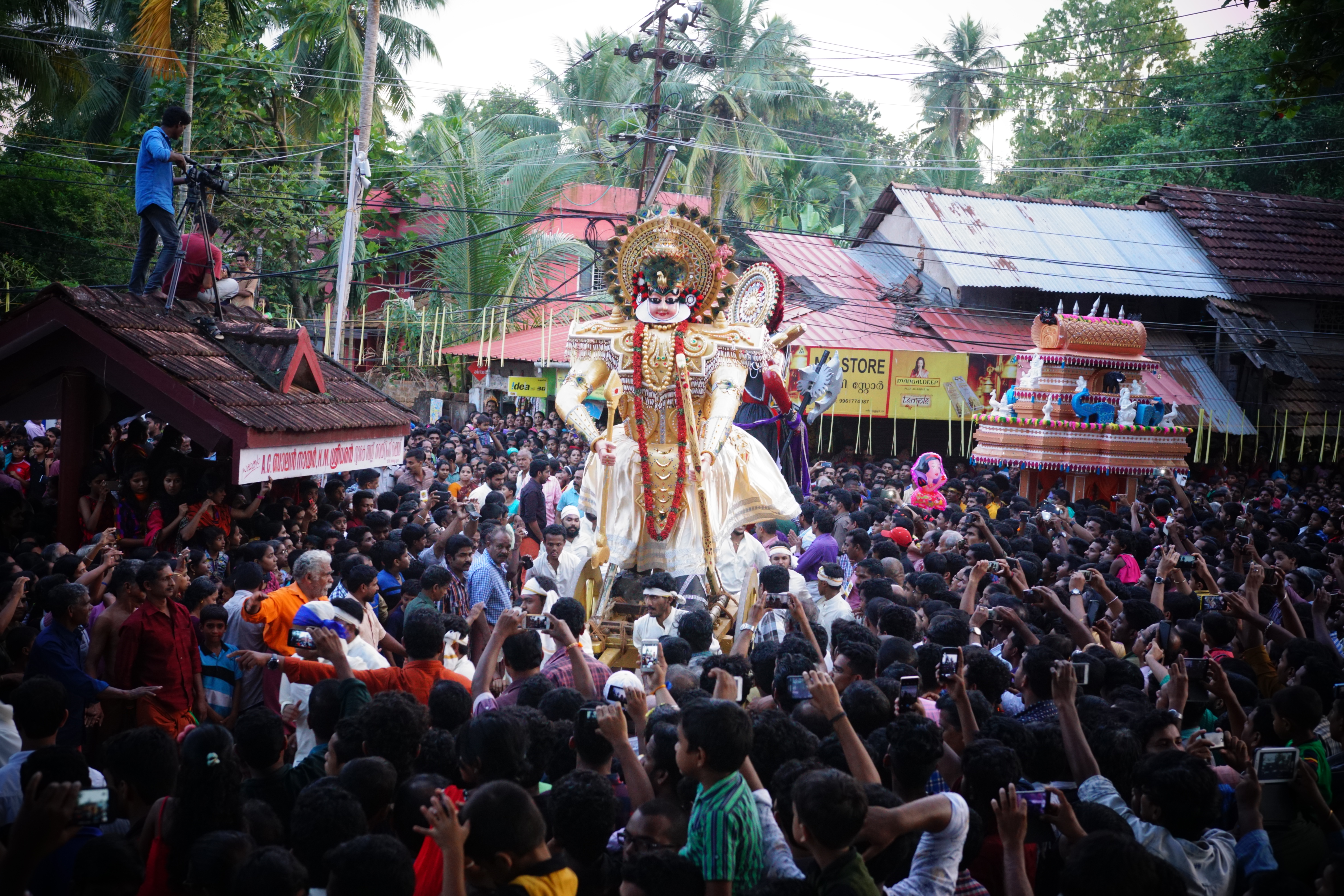 Cheruvannur